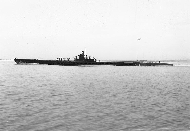 USS Salmon (SS-182) Removed caption read: Photo # 19-N-42433 USS Salmon off the Mare Island Navy Yard, 22 March 1943